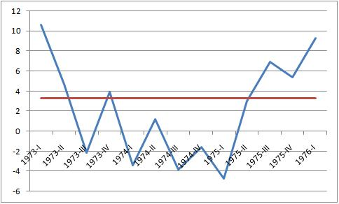 A graph of the recession in the United States from 1973-75. Blue line is Percent Change From Preceding Period in Real Gross Domestic Product (annualized; seasonally adjusted) Red line is Average GDP growth 1947–2009 Data is from the Bureau of Economic Analysis.